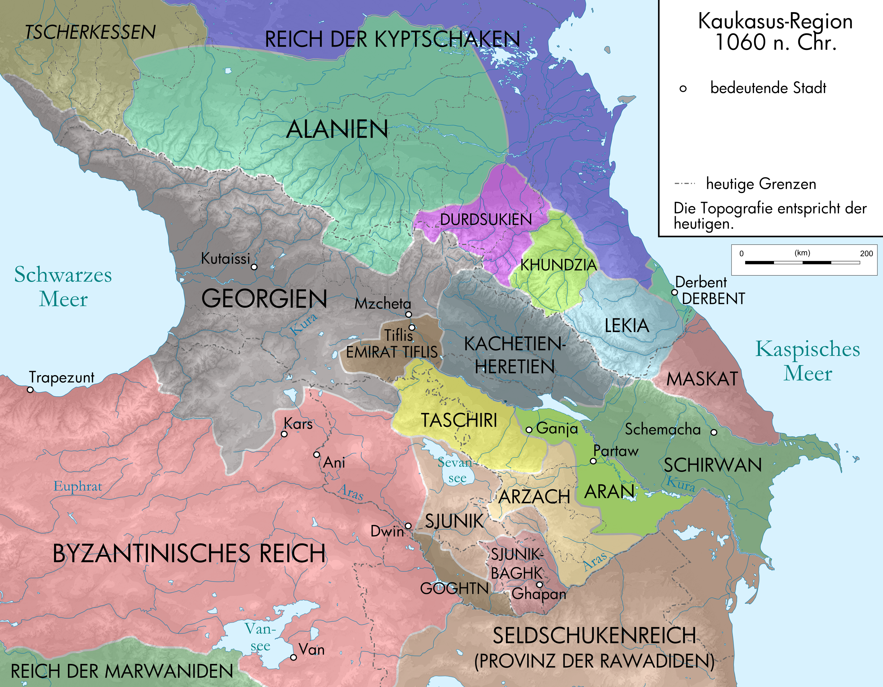 Map of Caucasus Region around 1060 AD in German.